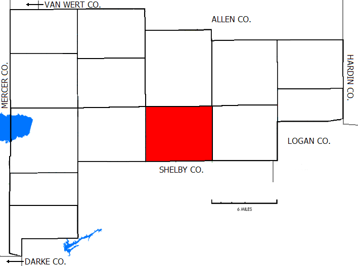 Taken from the Auglaize County map provided by Prinzwilhelm, who claimed that the original map was "self-created based on U.S. Government Census Maps and Date," and modified by myself to show the highlighted township.